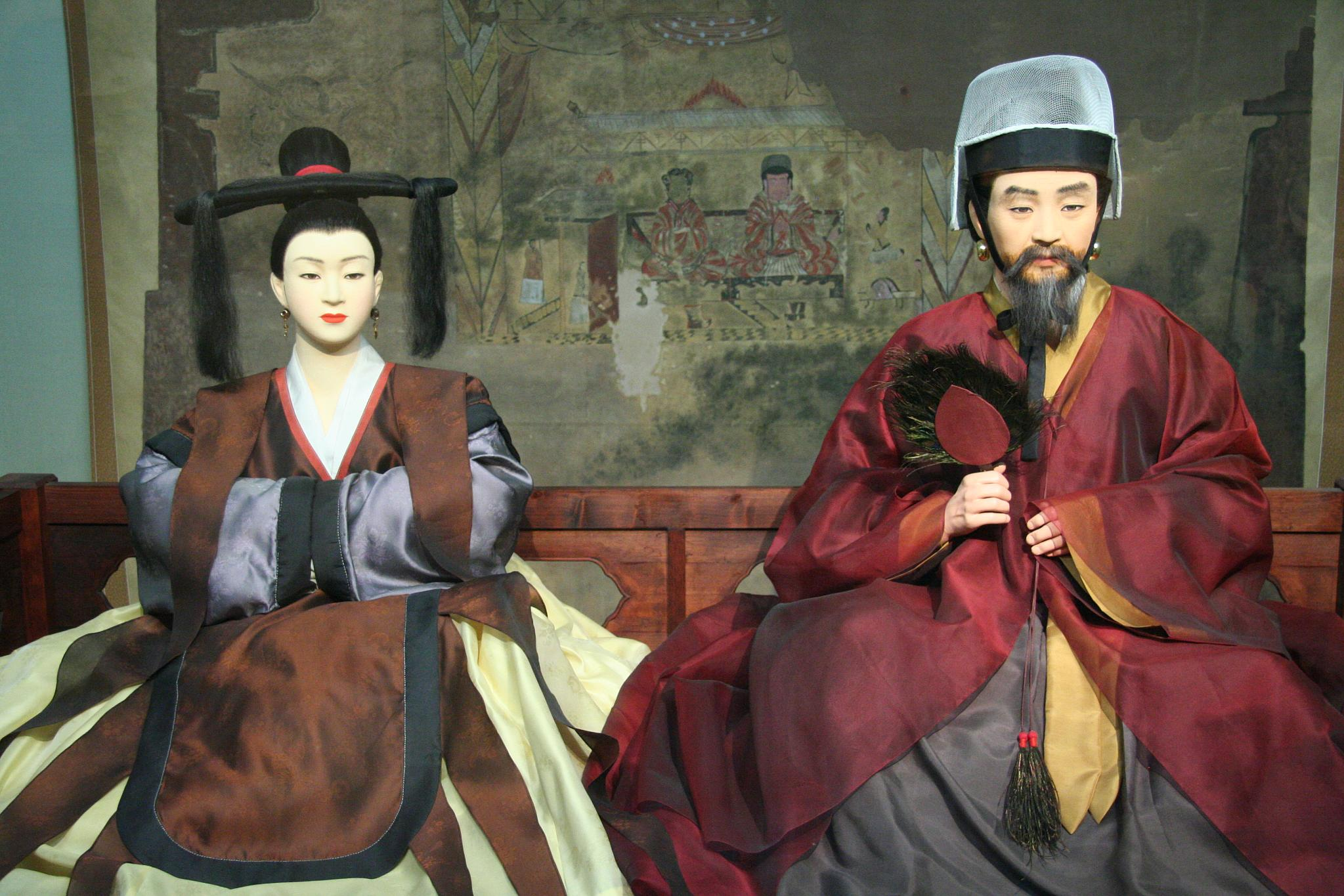 Royal attire during the Three Kingdoms of Korea.